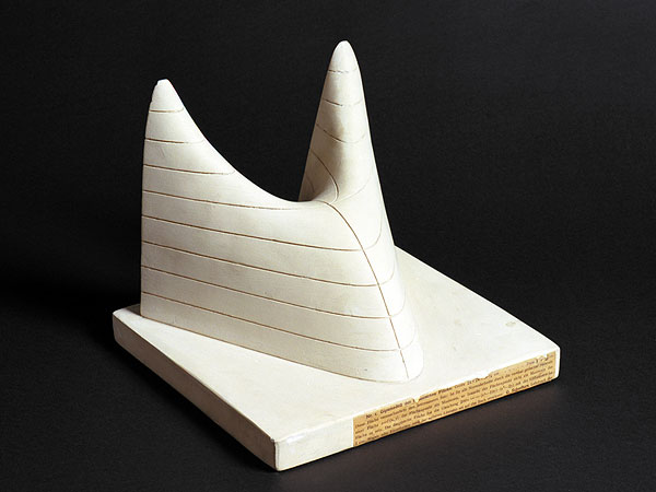 Model in the collection of mathematical models and instruments, Georg-August-Universität Göttingen Göttingen. see also for more information on the models